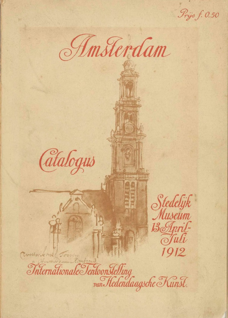 Stedelijke internationale tentoonstelling van kunstwerken van levende meesters, front cover